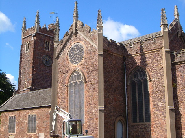 Part of St Thomas the Apostle's parish church, Exeter, Devon. The excavator in the foreground is working on a new building in the churchyard.